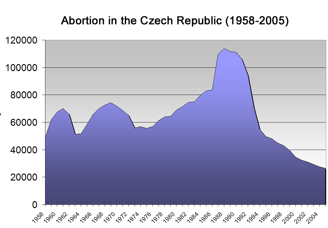 Translated version of an image from Czech Wikipedia, Image:InterrupceCR.png. Original by User:Dodo. The chart represents the number of induced abortions in the Czech Republic from 1958 to 2005.